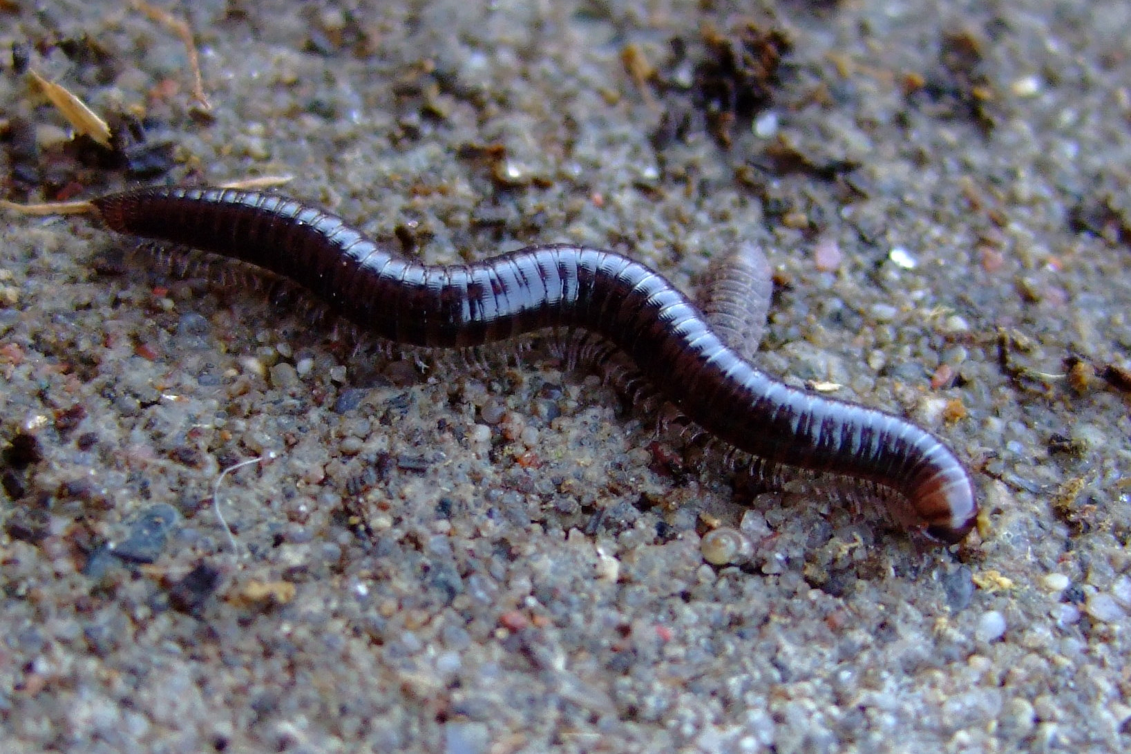 This is probably the millipede Cylindroiulus caeruleocinctus in Kirchwerder, Hamburg.